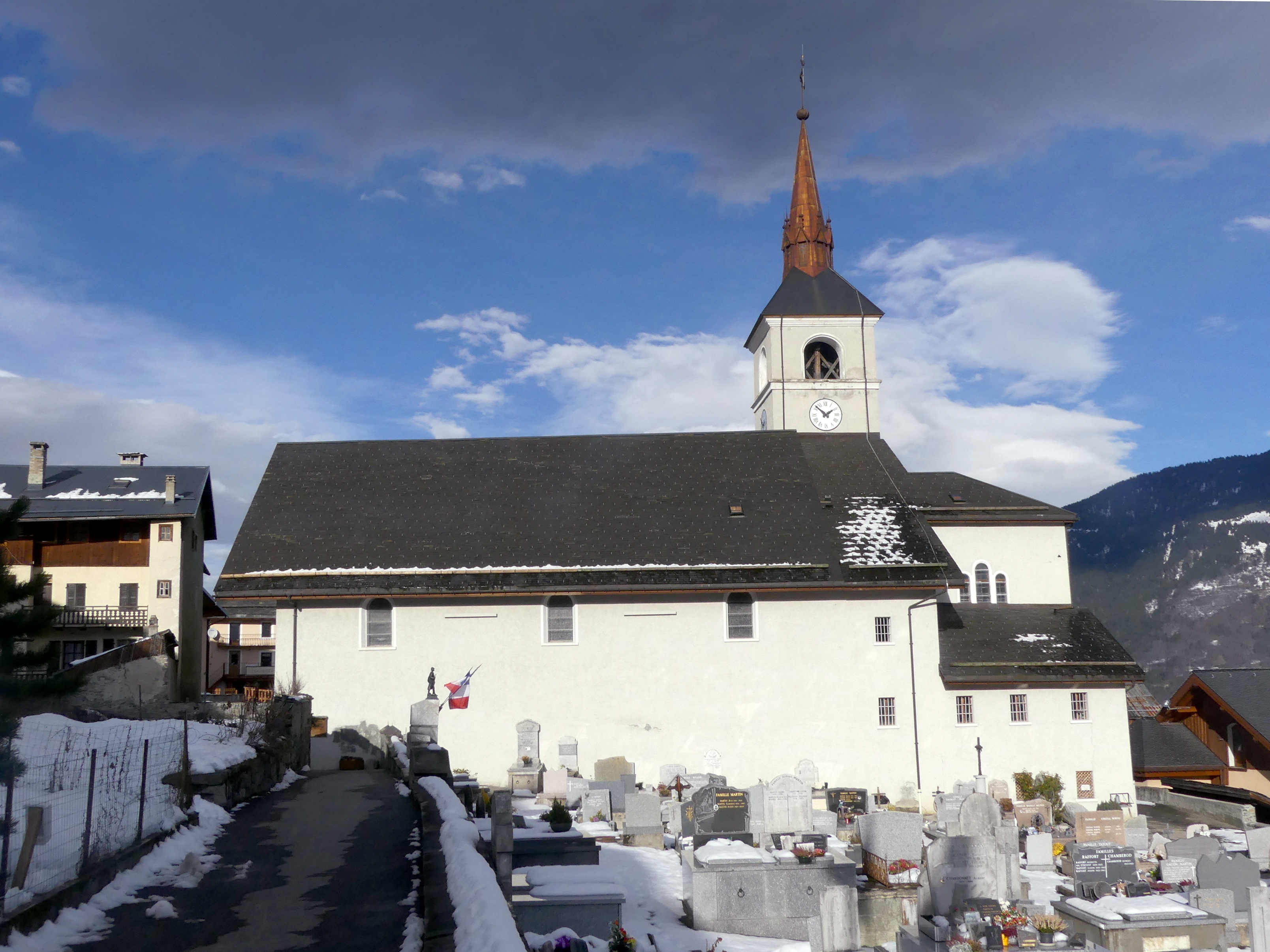 Sight of the église Saint-Martin church of Les Allues, in Savoie, France.